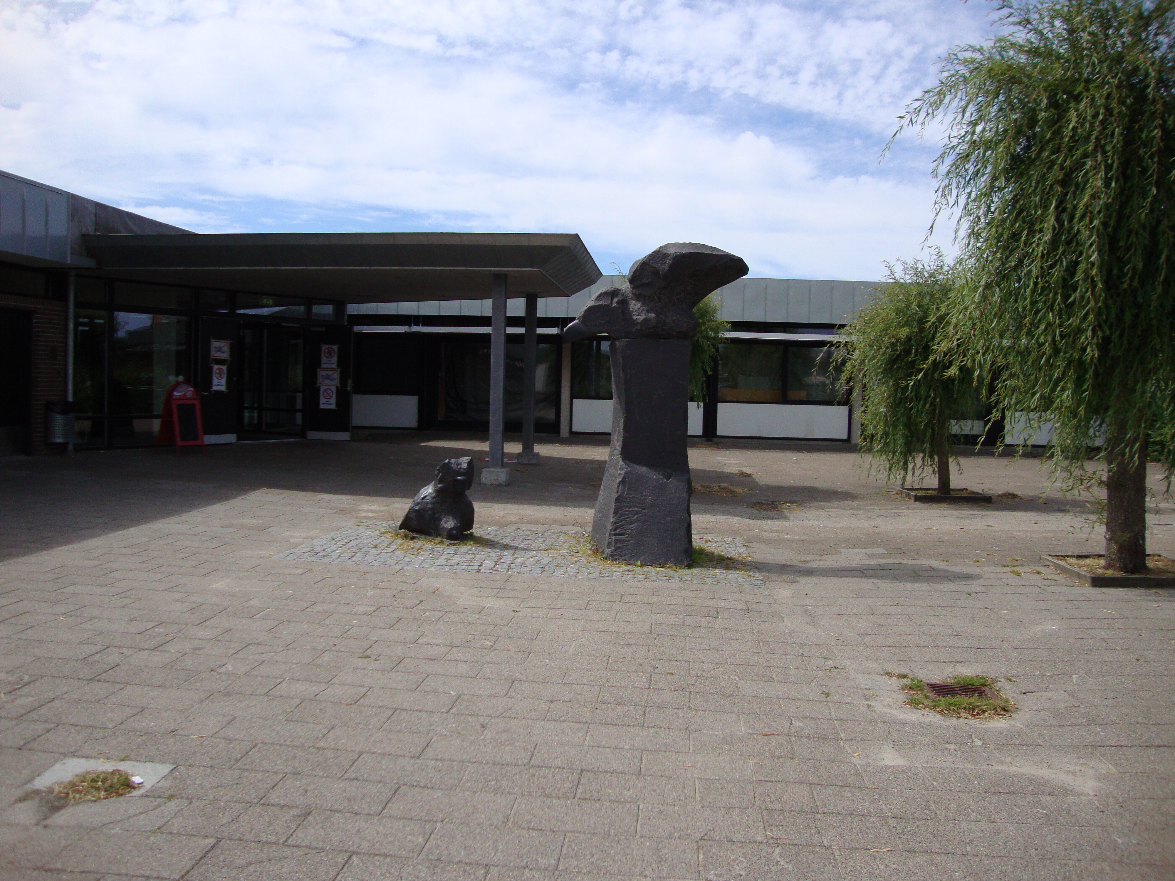 The school Lundergårdskolen in western Hjørring. Main entrance with sculpture